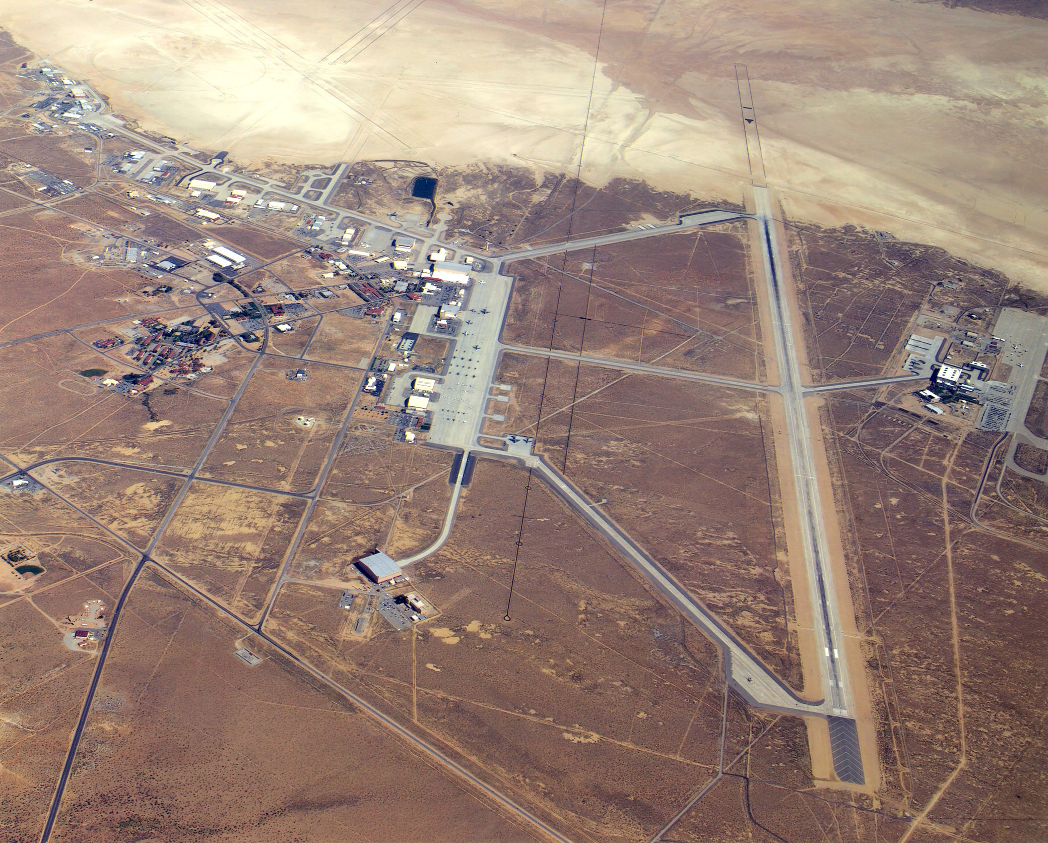 A pilot's view of Edwards Air Force Base, in the Mojave Desert of Southern California. Showing the main base area, located next to Rogers Dry Lake.